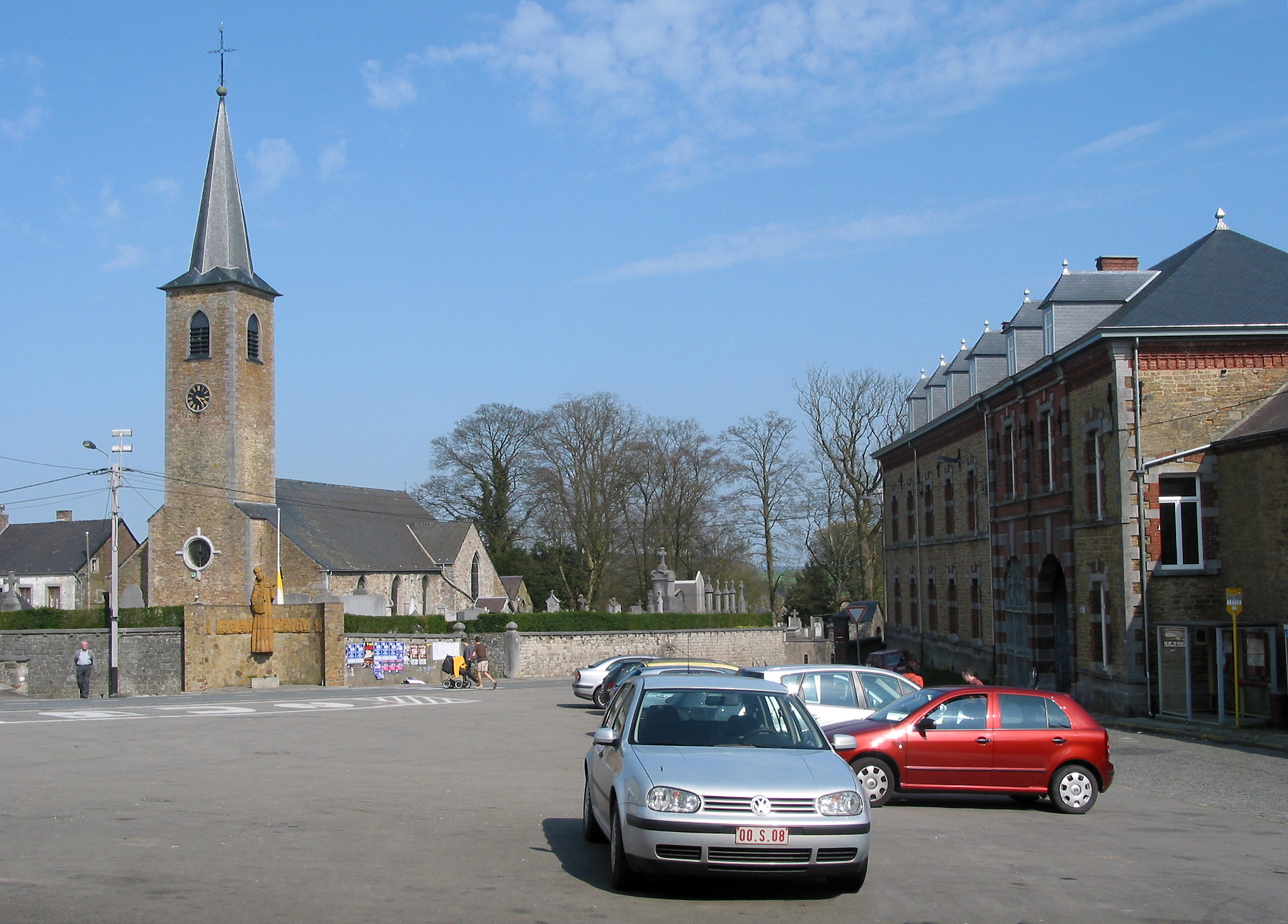 Lompret, Belgium , the Saint Stephen church (XVI/XVIIIth centuries) and the entrance of the "Brogne" abbey.